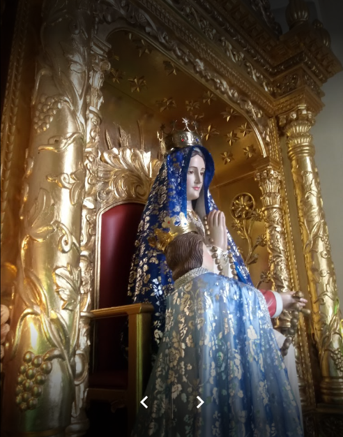 Escultura de la virgen.